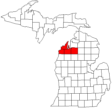 Map of Michigan highlighting the Traverse City Micropolitan Area; created with the GIMP. Made by User:Acntx.